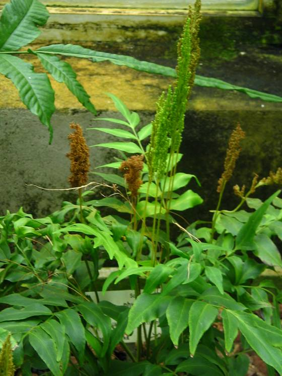 collection of Univ. of Giessen bot. garden